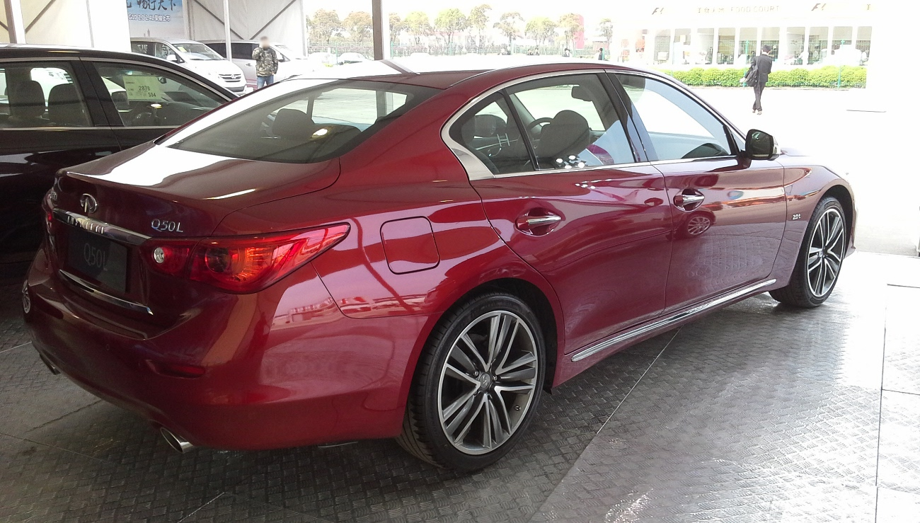 Infiniti Q50L photographed in Anting, Shanghai municipality, China.